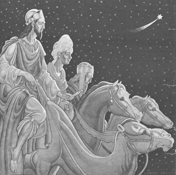 Art by Ángel Ximénez Herráiz (1900-1930), front page of Estampa 1928.01.03